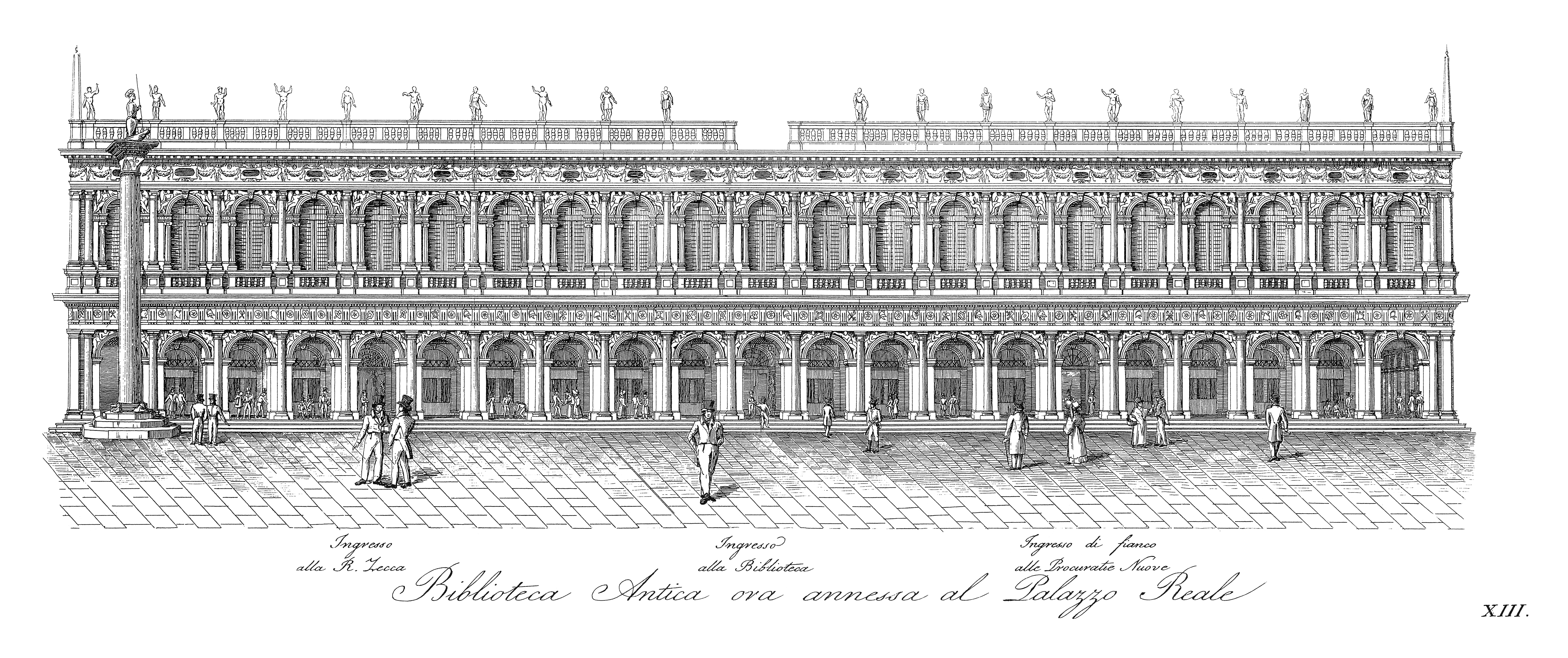 This image shows plate XIII, entitled Biblioteca Antica ora annessa al Palazzo Reale. North façade of the Biblioteca Marciana. At the left, the column with the statue of San Todaro (or San Teodoro, Theodore of Amasea).